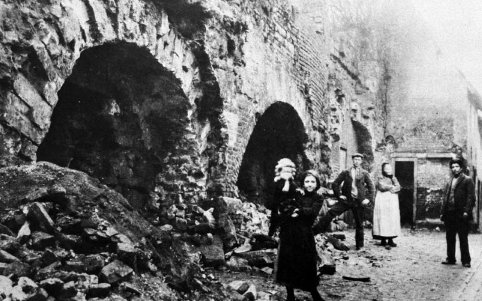 Maastricht, the Netherlands. View of the first medieval city wall at Lang Grachtje in 1895.